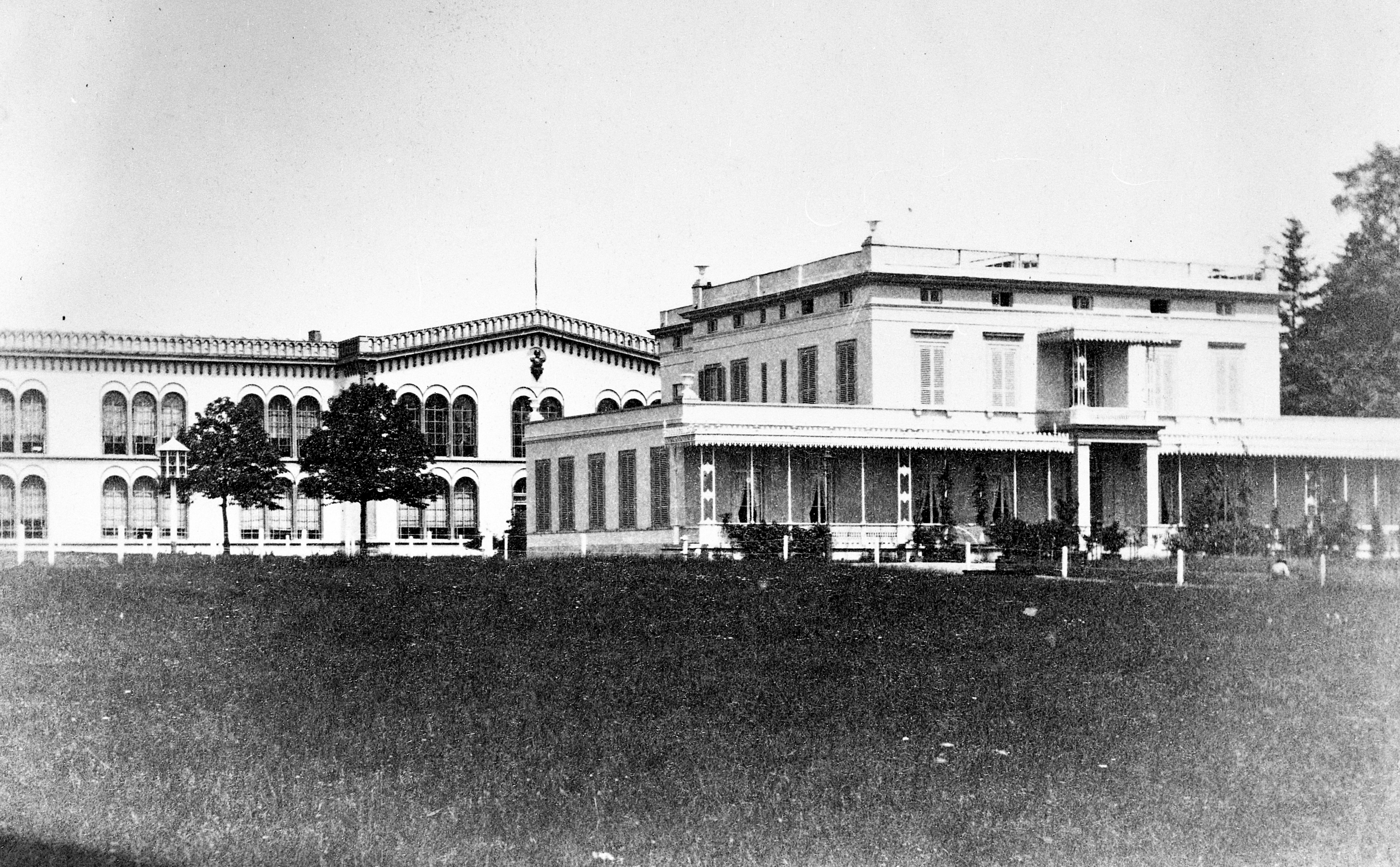 Bronbeek Military home for veterans Arnhem, Netherlands 1865